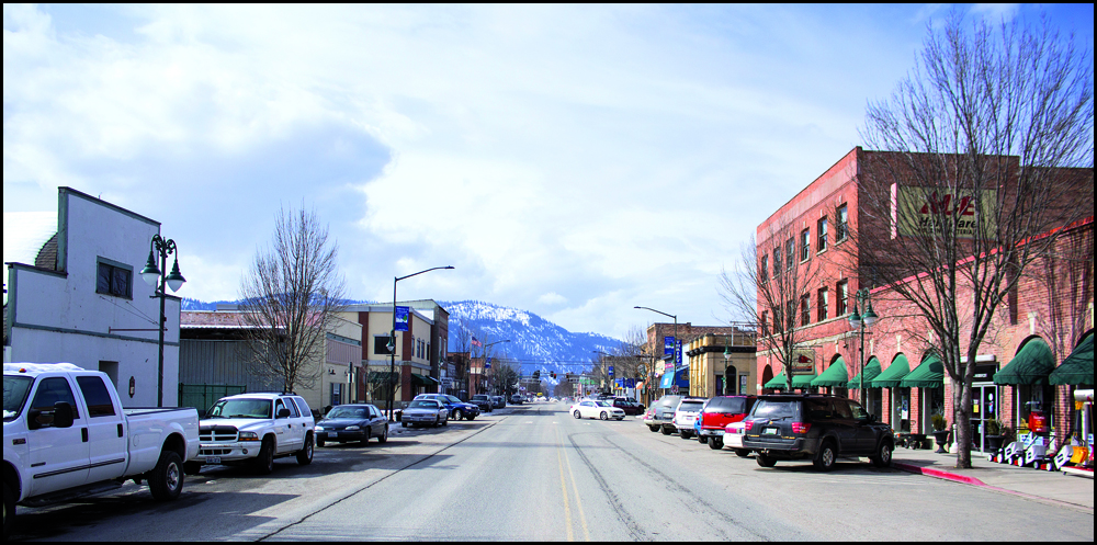 Here is downtown Chewelah from 2018 with Sety's Ace Hardware visible on the right side of Main Ave. (Brandon Hansen photo)